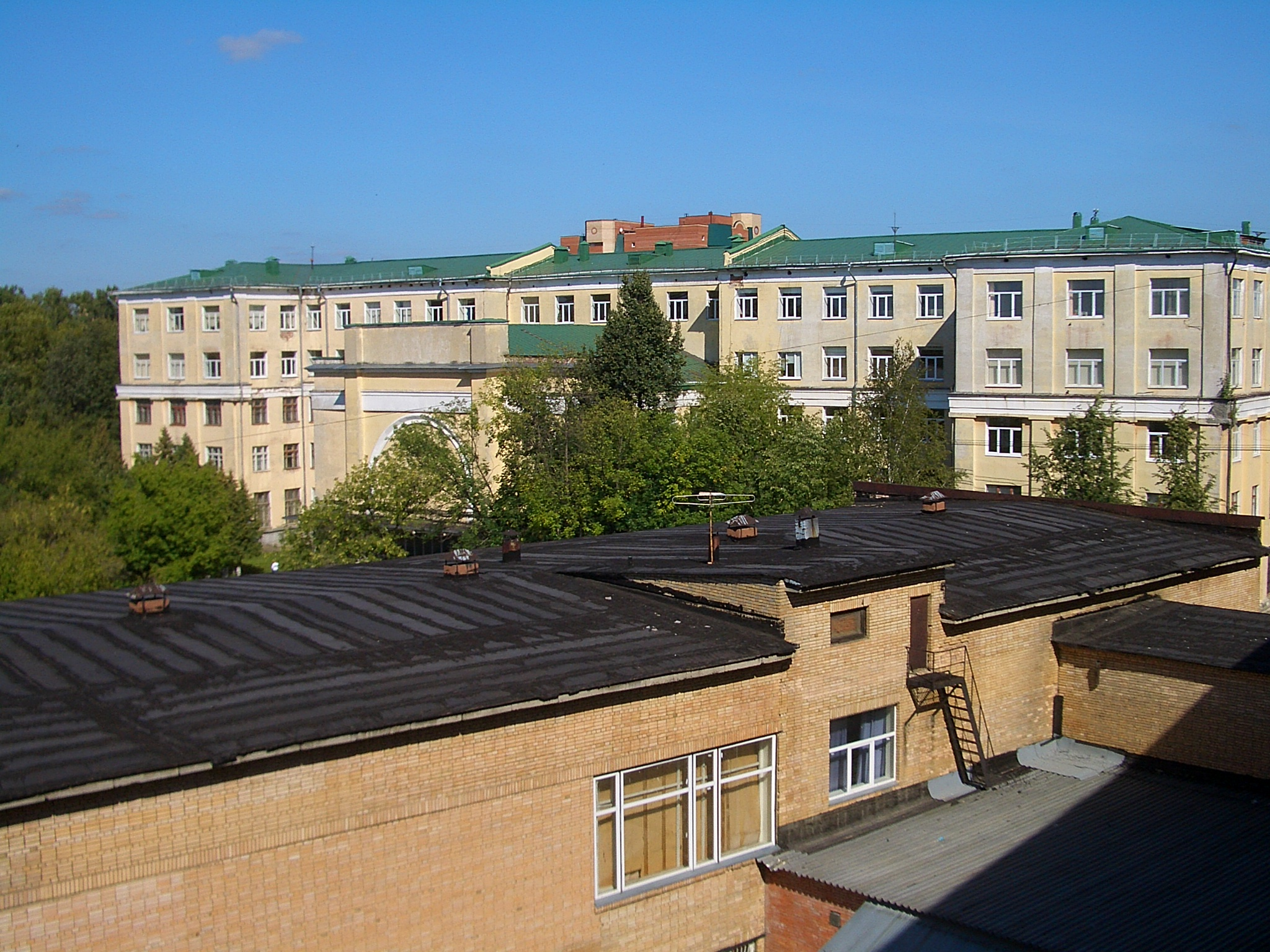 The "Laboratory Building" of the MIPT campus. The structure in front is part of the "Concert Hall".